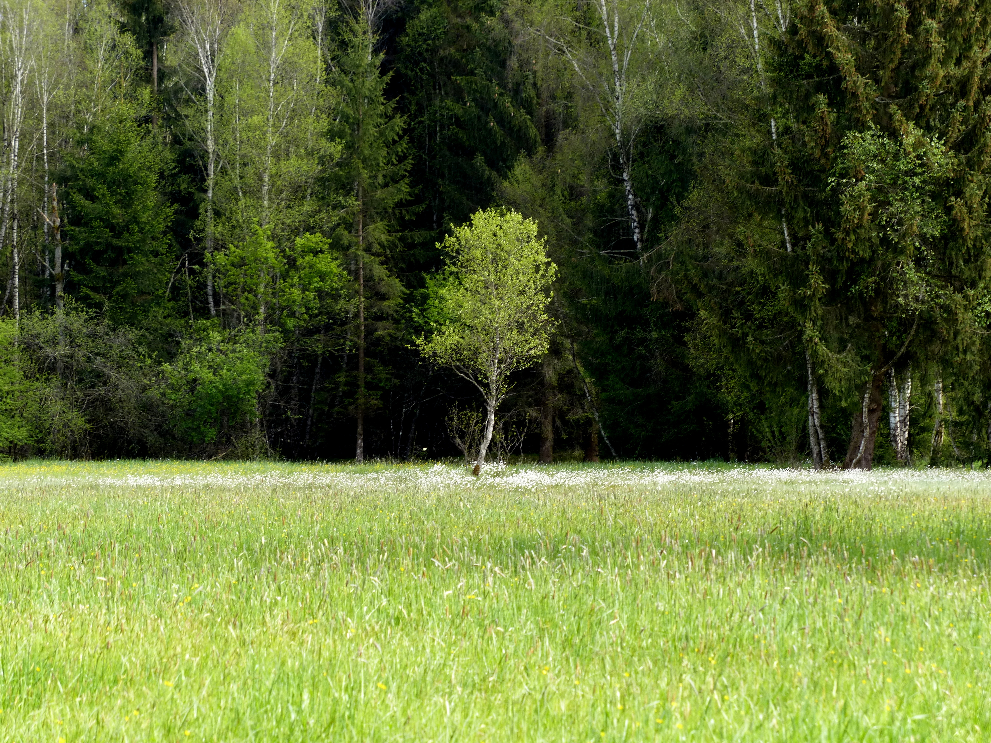 Birch on a wet meadow in the landscape protection area "Waltenhofener Moor"